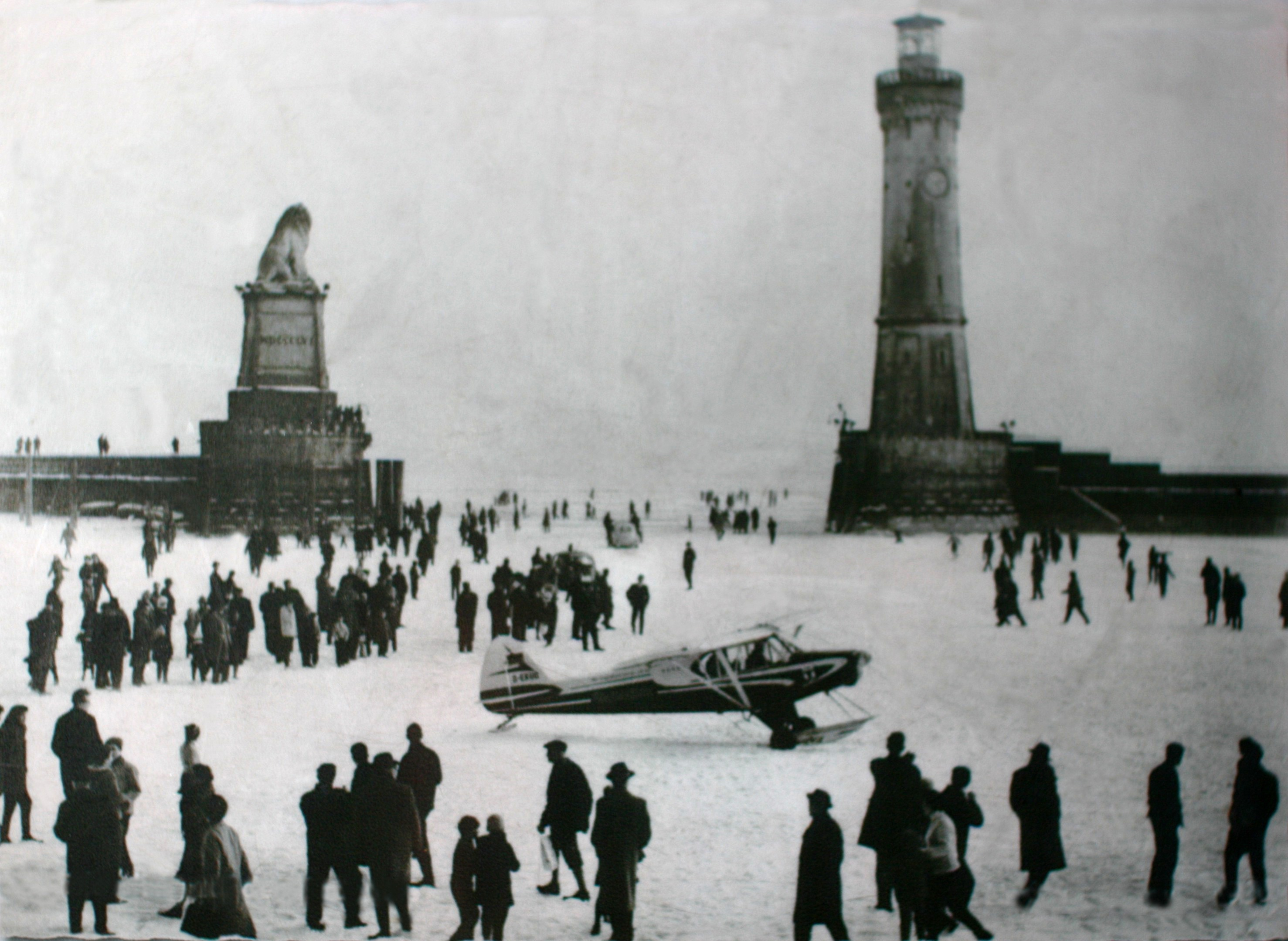 Representation on a view table at the Lindau harbor: Icelanding in the harbor of Lindau during the Seegfrörne in 1963, recorded by W. Stuhler